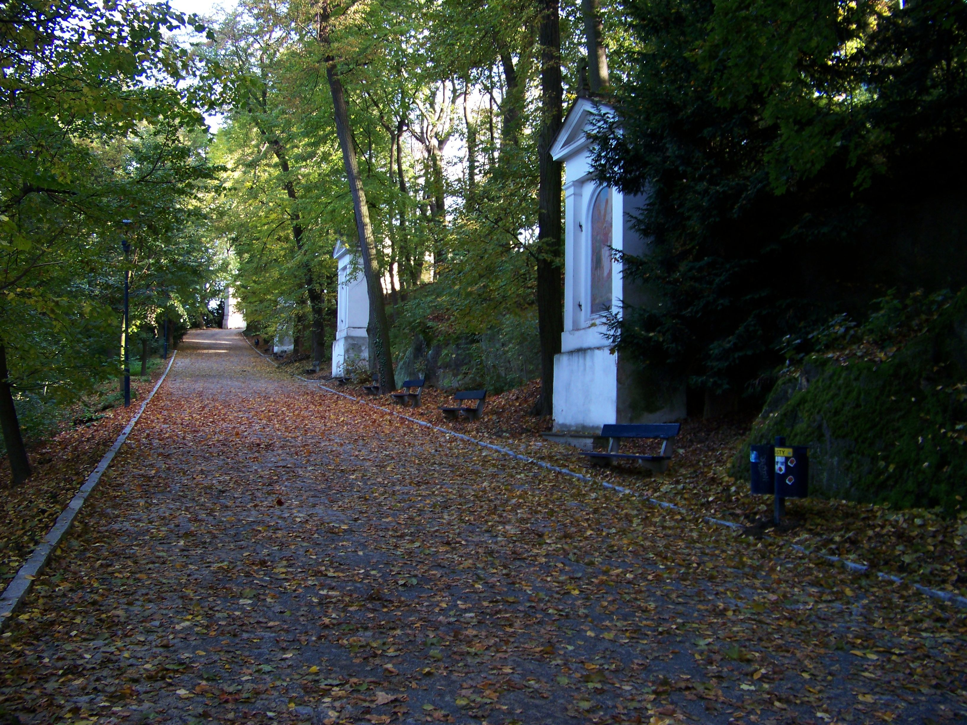 Prague-Malá Strana, the Czech Republic. Petřín hill, Petřín Park, Stations of the Cross, II, III, IV, V.